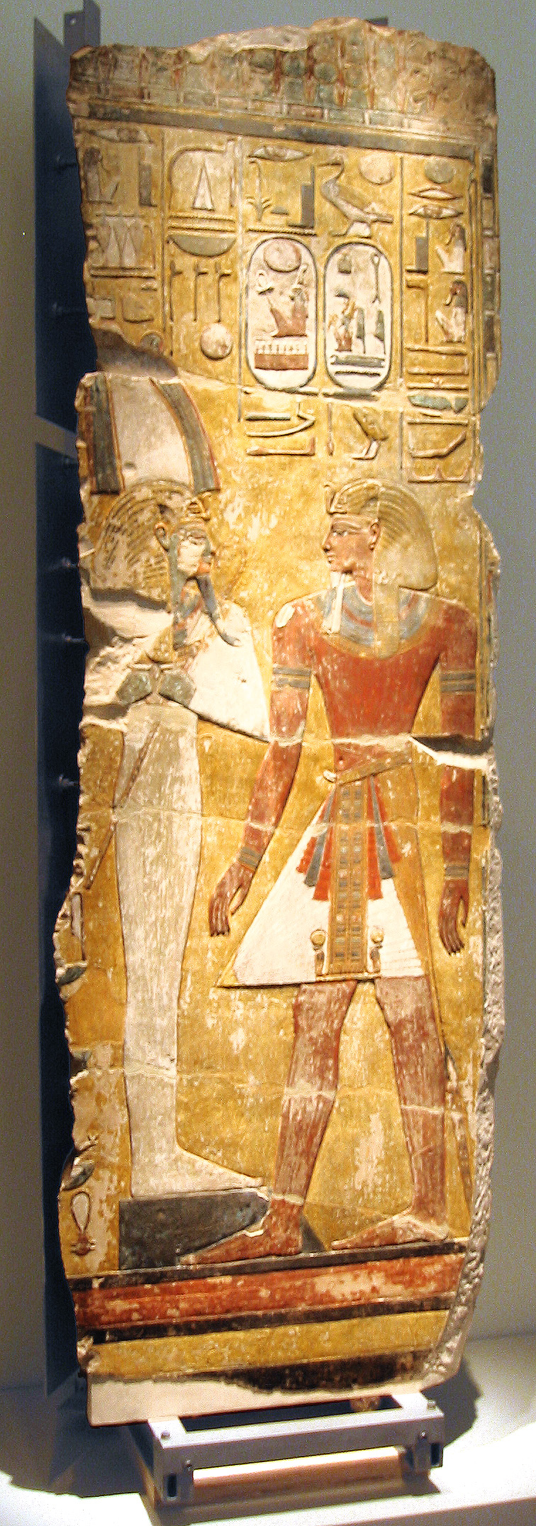 Object in the Ägyptisches Museum Berlin (Egyptian museum, building of the New Museum), Berlin.